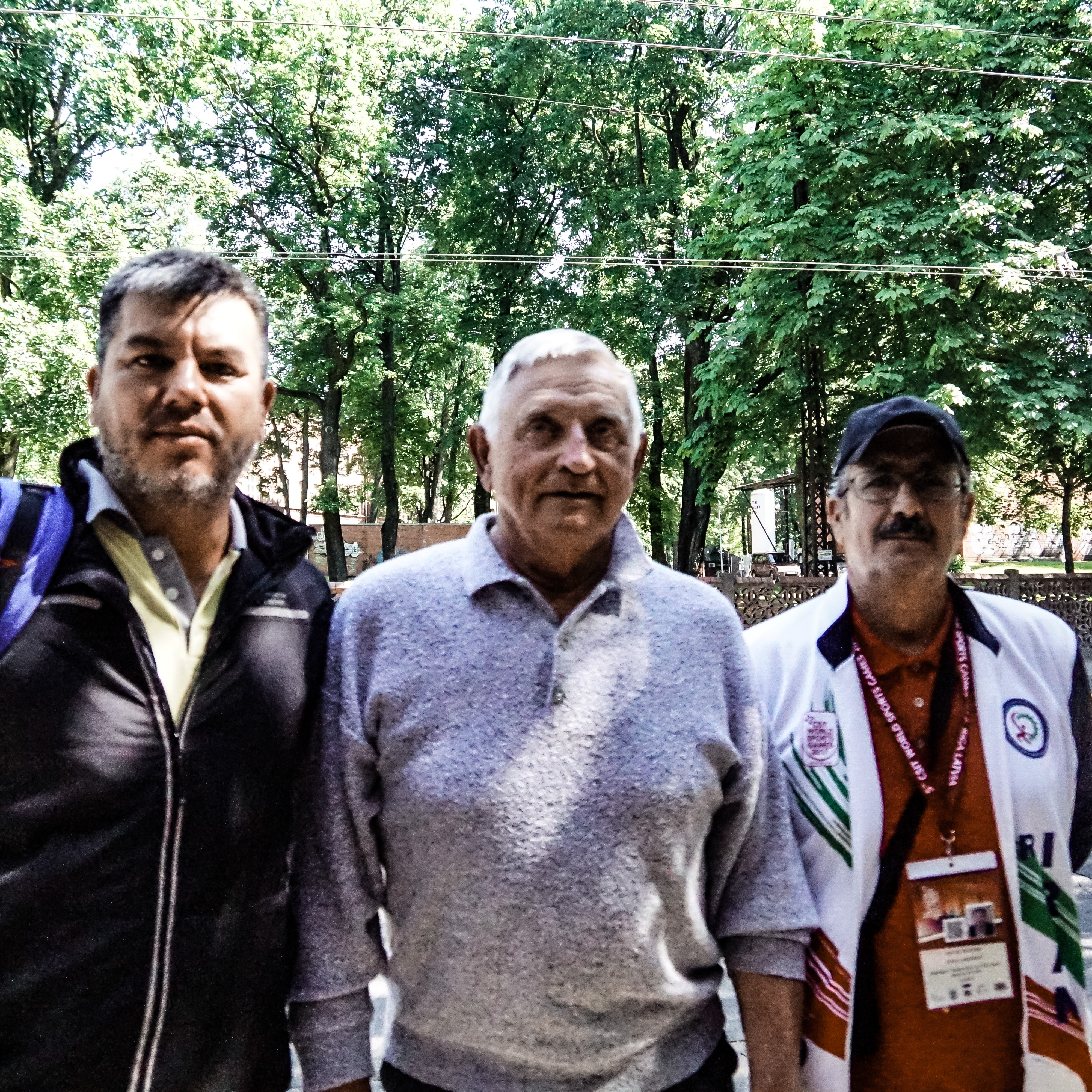 Ivan Bugajenkov (in the middle) alongside iranian voleyball enthusiasts during csit world sports games & single championships 2017 in Riga, Latvia.